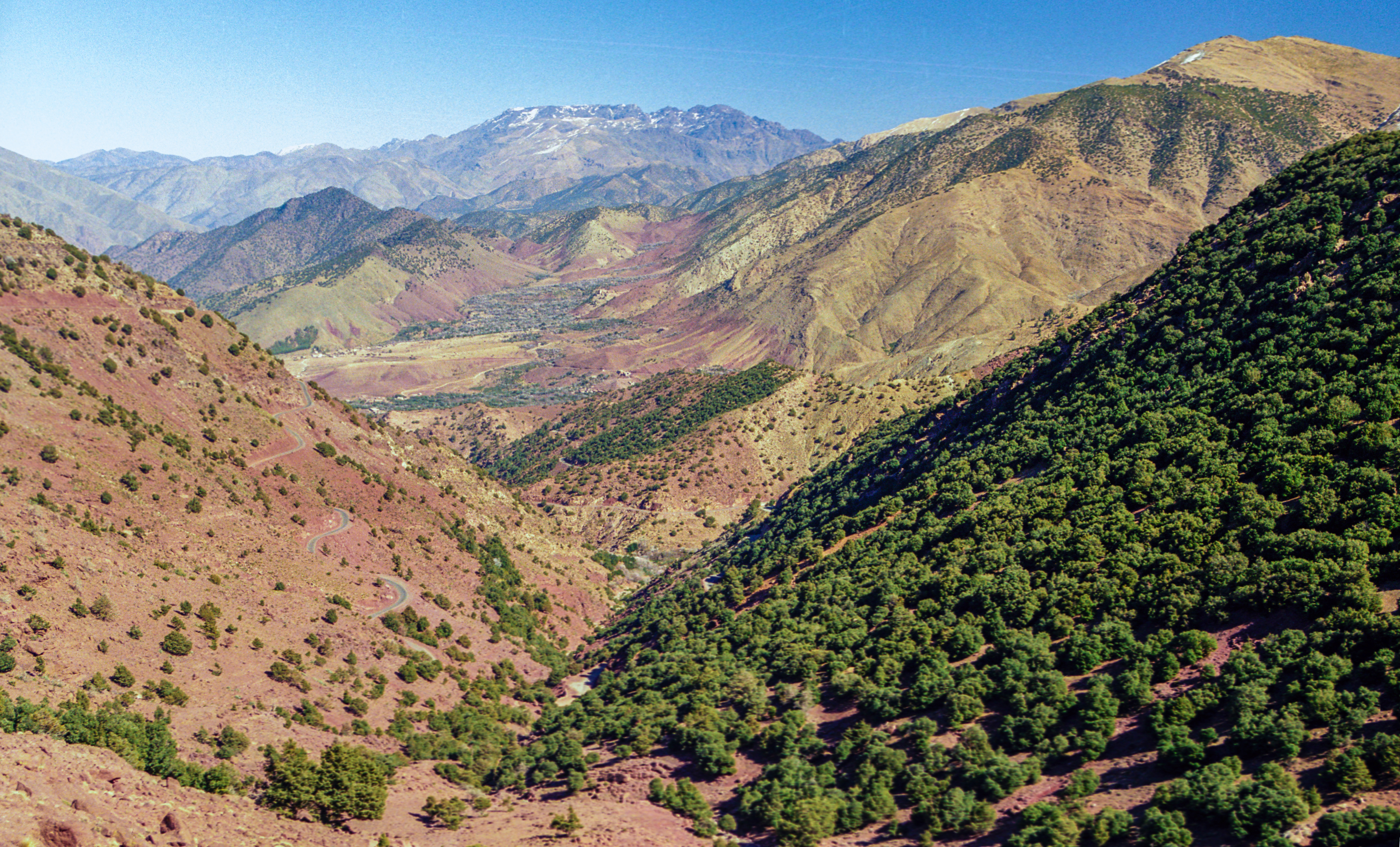 High Atlas, Morocco